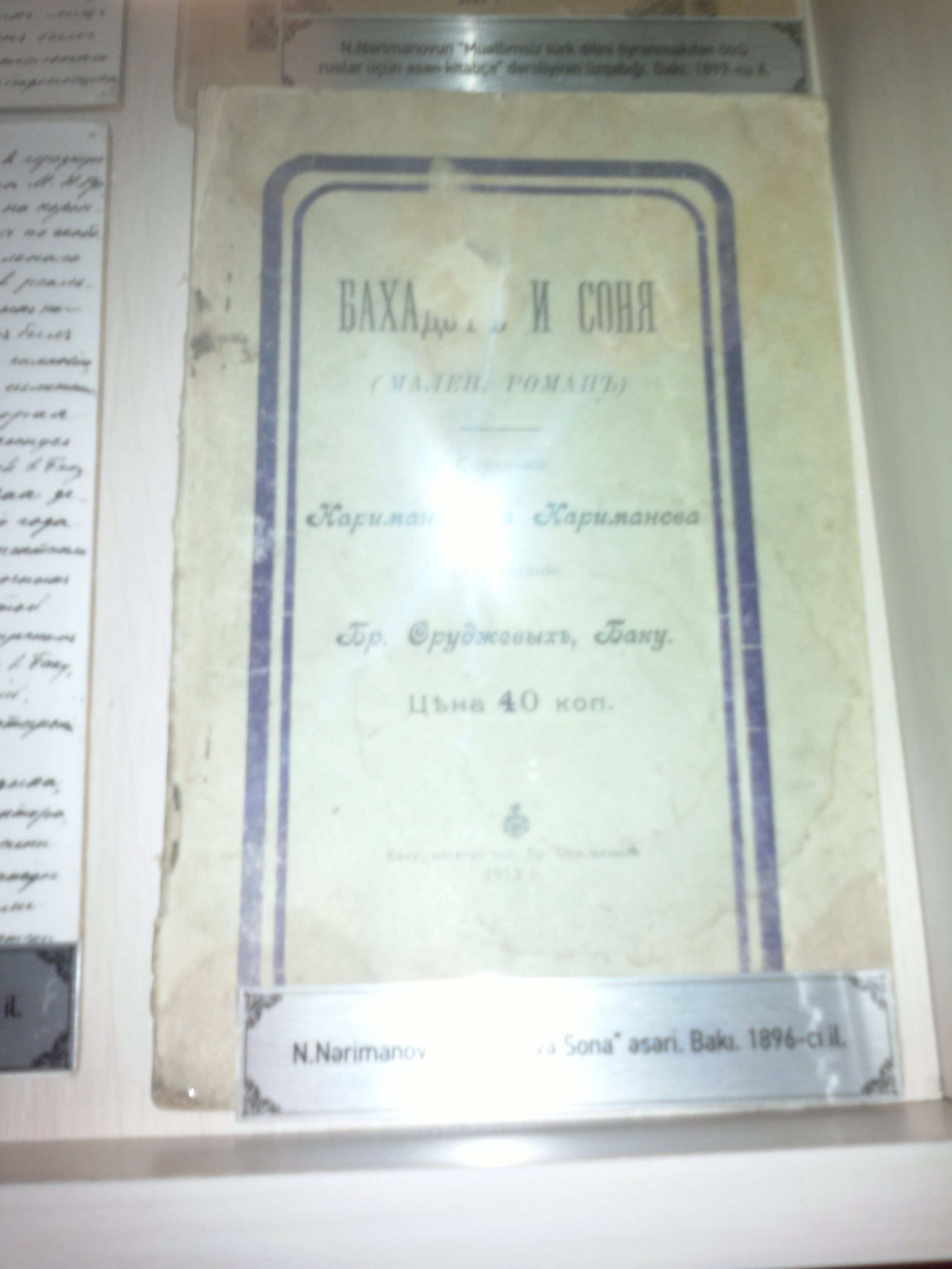 House-museum of Nariman Narimanov